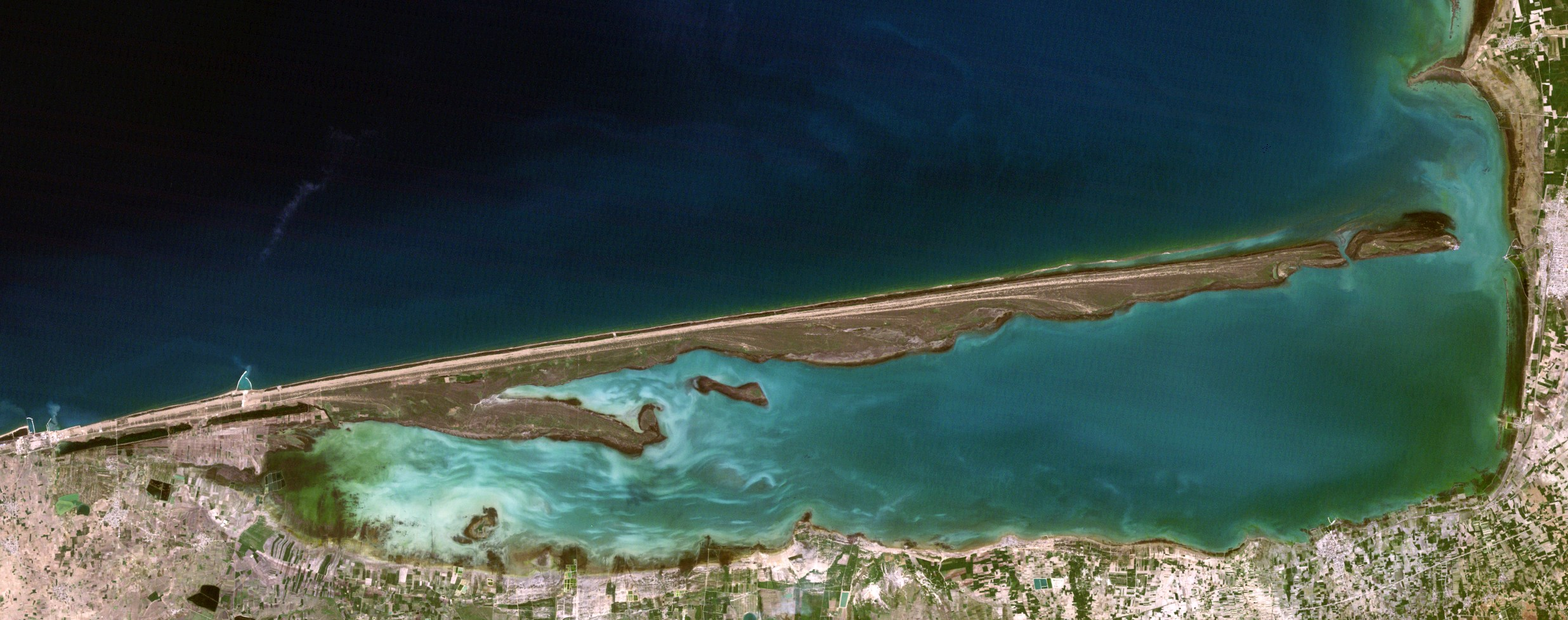 Gorgan Bay separated from open waters of the Caspian Sea with the Miankaleh peninsula, it's easternmost tip forms Ashuradeh island; LandSat-5 satellite image 01-APR-95 ID:LT05_L1TP_163034_19950401_20170717_01_T1